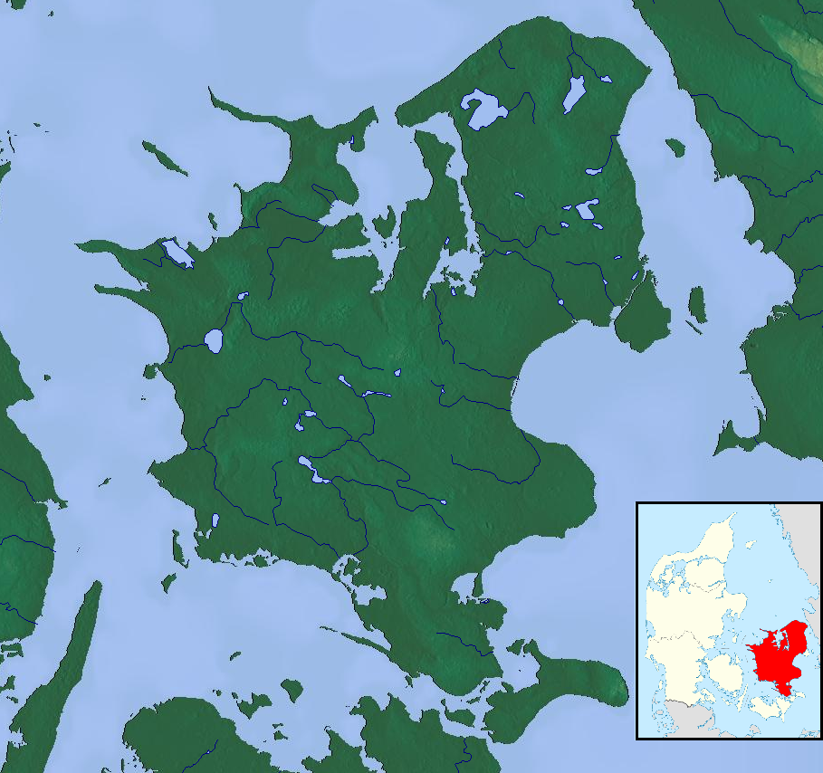 Map of Zealand, Denmark Geographic limits of the map: N: 56.156° S: 54.829° W: 10.646° E: 13.142°